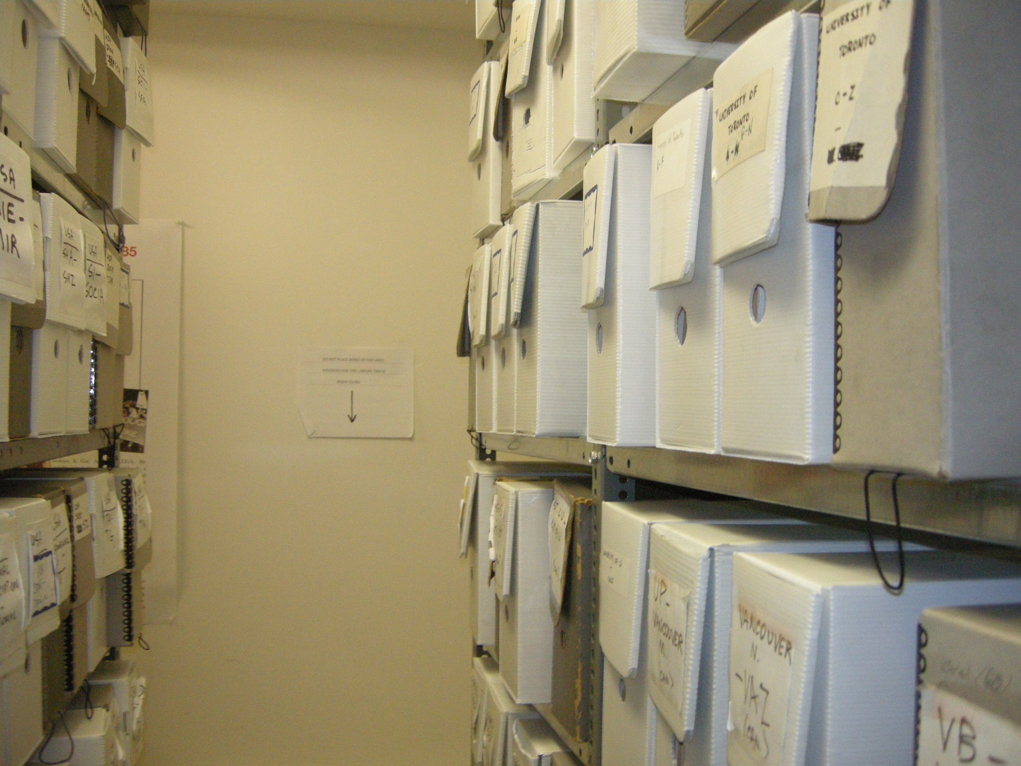 Image of Vertical file storage at the Canadian Lesbian and Gay Archives